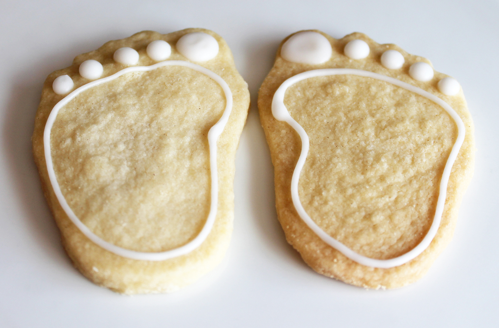 © Mandalina Bakery for cupcakes, cakes and other bakes in Farnborough